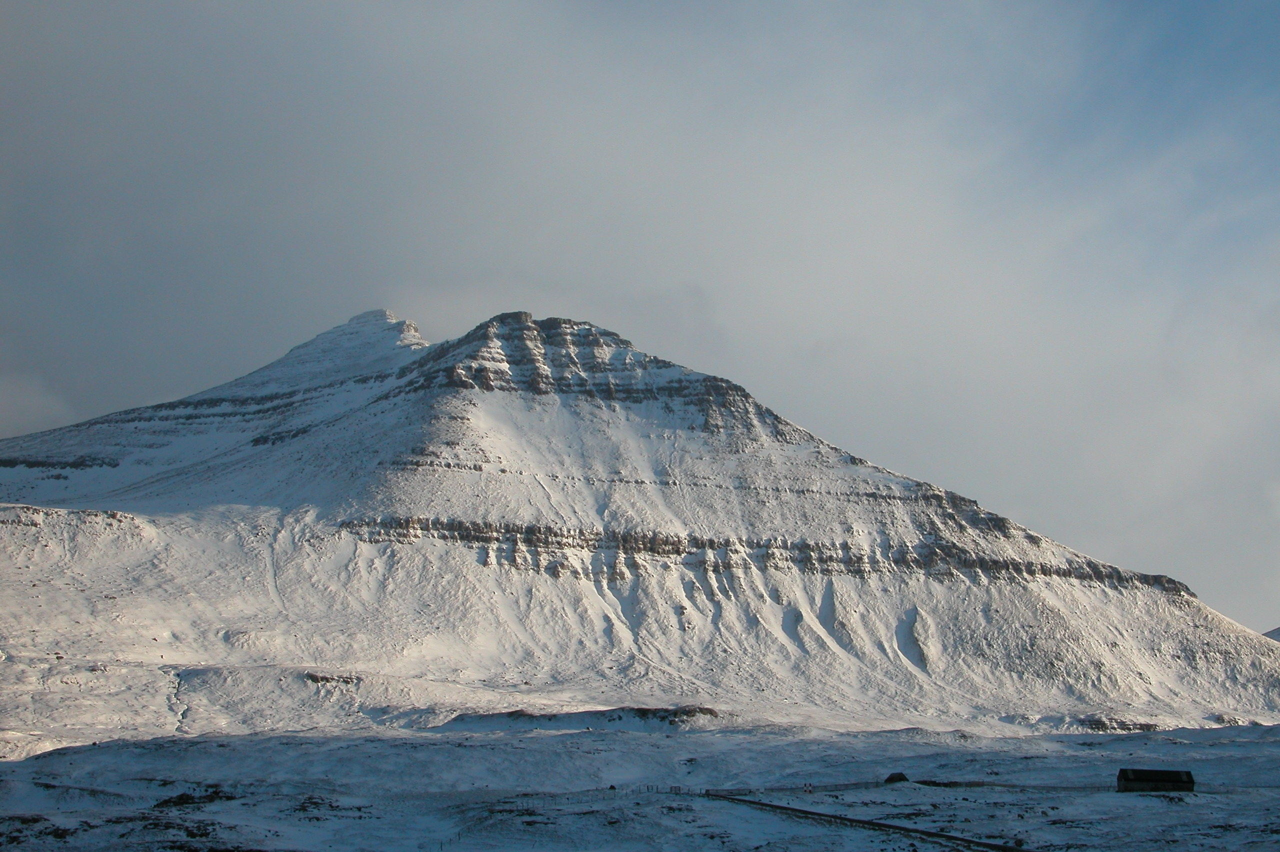 Slættaratindur (882m) on Eysturoy, Faroe Islands. The highest mountain of the country.